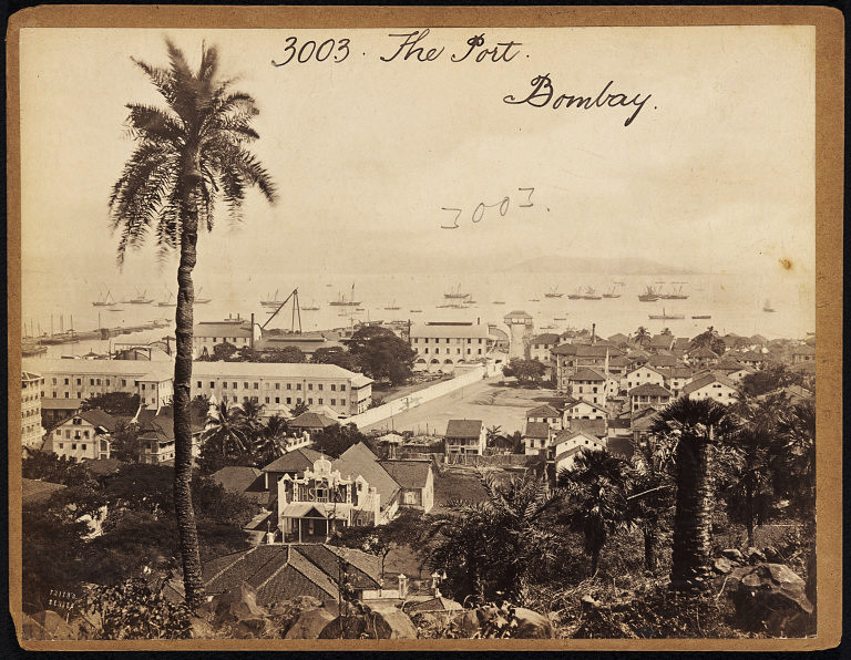 Whole plate albumen print from wet collodion glass negative.